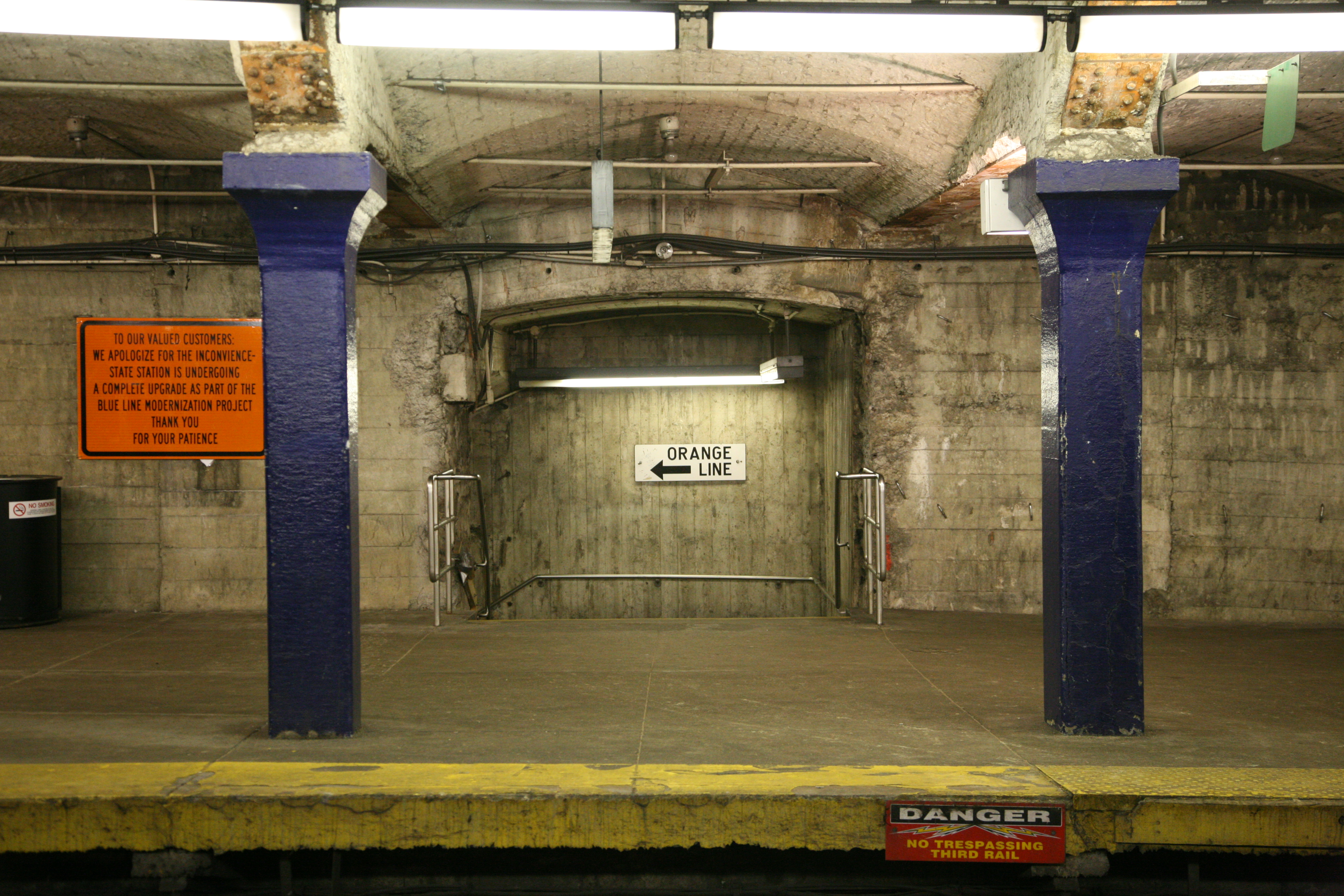 The Blue Line level of the MBTA's State station under renovations in late 2007